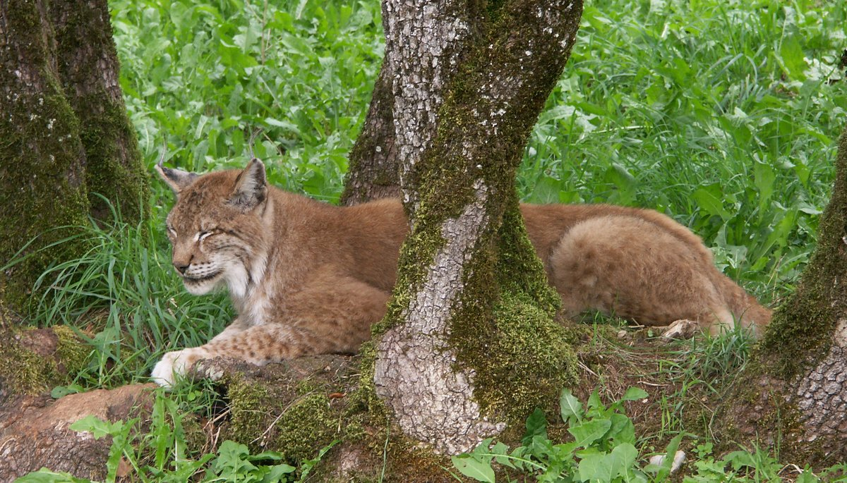 "Minette", a lynx (Lynx lynx) from animal park of Gramat in France.